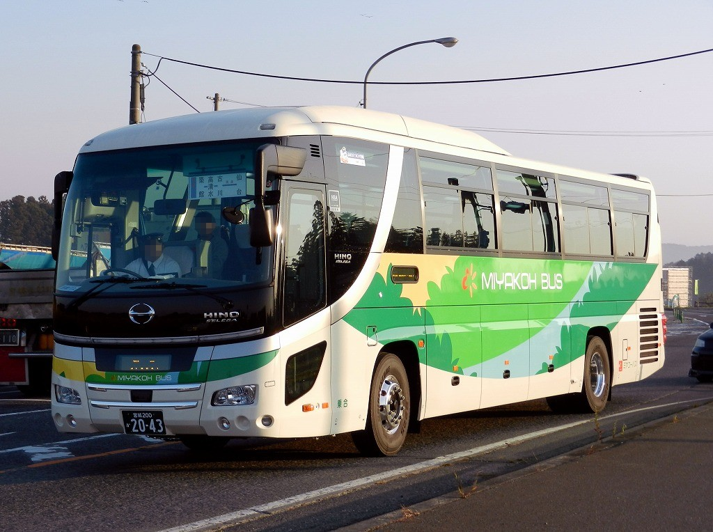 Miyakoh bus (Tsukidate office) HINO S'ELEGA(LKG-RU1ESBA)highwaybus "Sendai-Takashimizu"